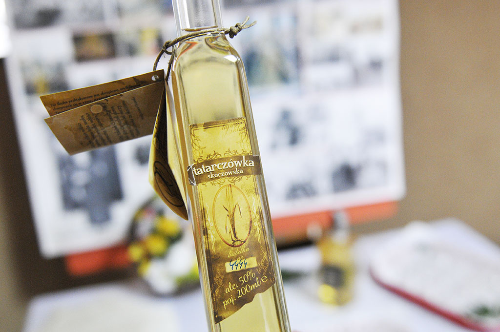 Traditional calamus vodka from Skoczow, Poland